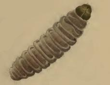 Stainton’s Natural History of the Tineina (1855–1873): Stathmopoda pedella